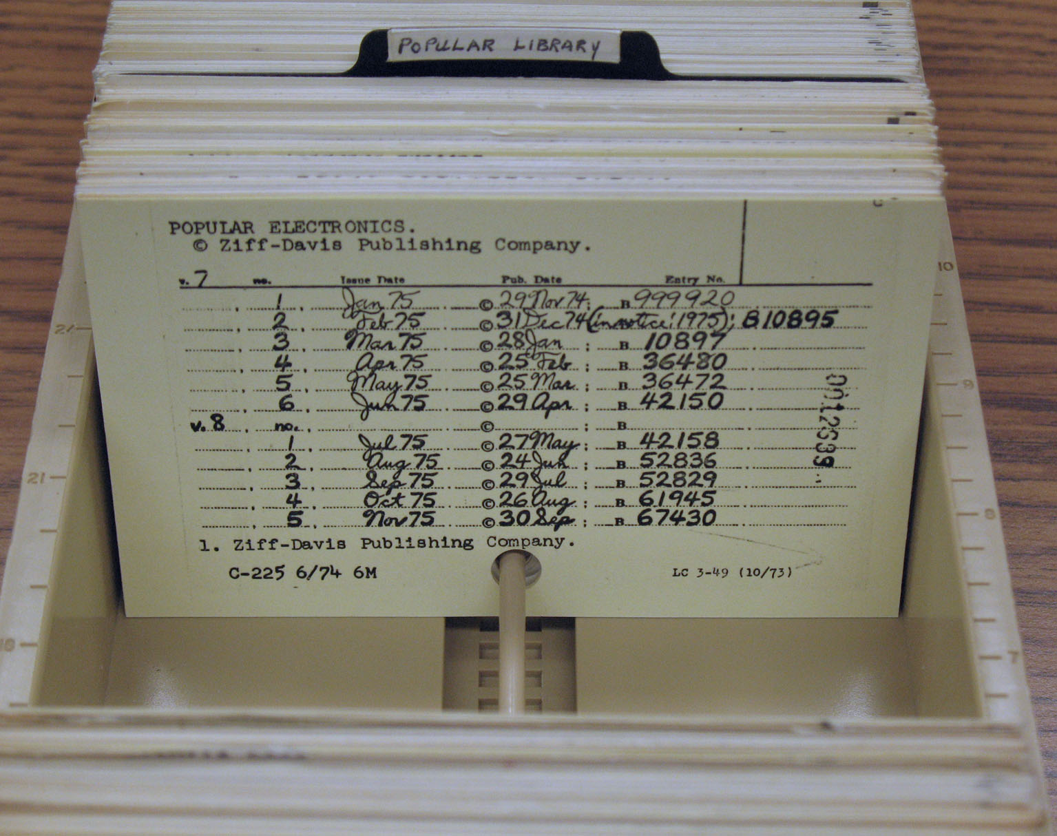 Copyright catalogs at the Library of Congress. Located in room LM-404 of the James Madison Memorial Building, Washington DC. The publication data for each magazine issue was hand-entered on the 3 by 5 inch index card. This magazine was published a full month before the cover date; the January 1975 issue was published in late November 1974. Subscribers received this issue around the second week of December 1974.